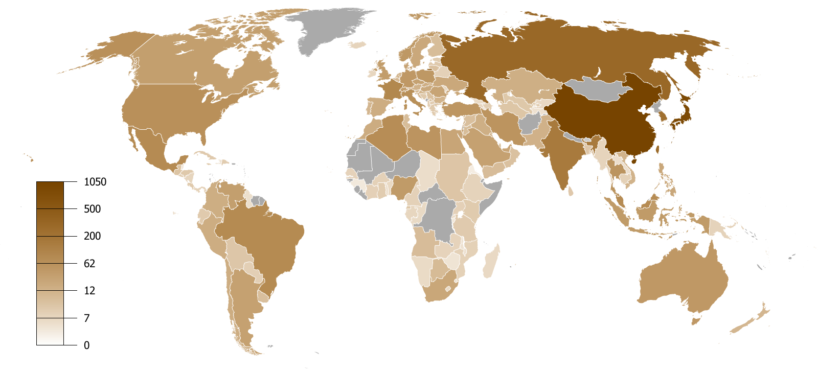 The global distribution of reserves of foreign exchange and gold in 2006, in billions of USD. The data was taken from on the 27th of June 2007. Note that the SVG version has no key.